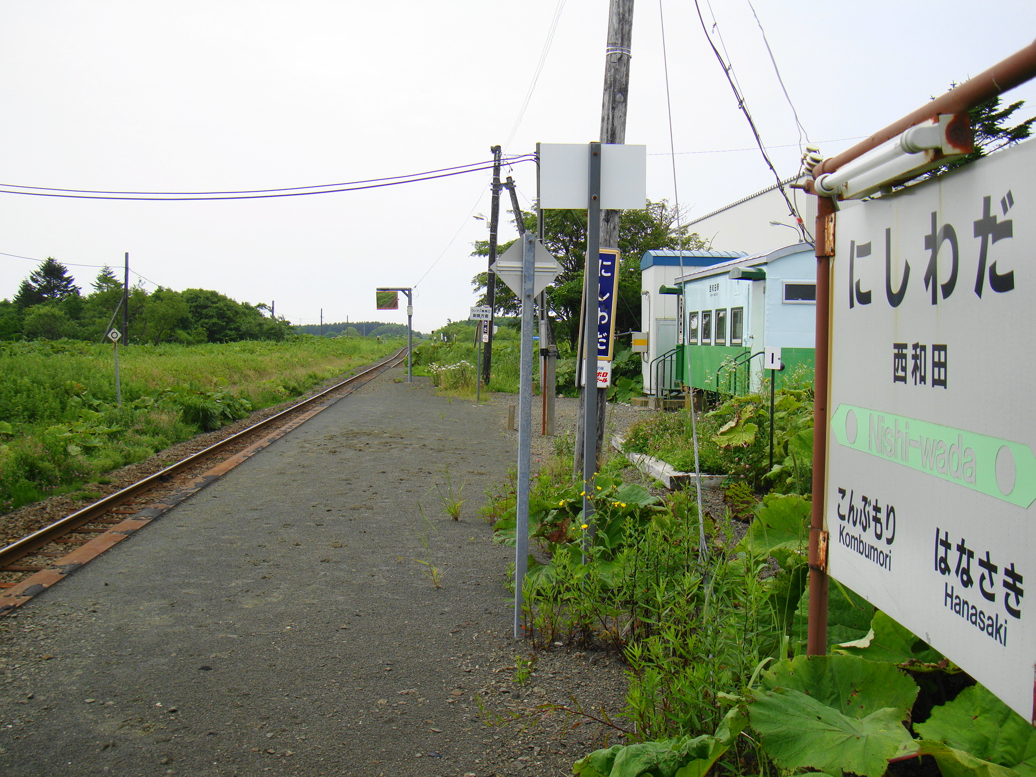 Nishi-Wada Station